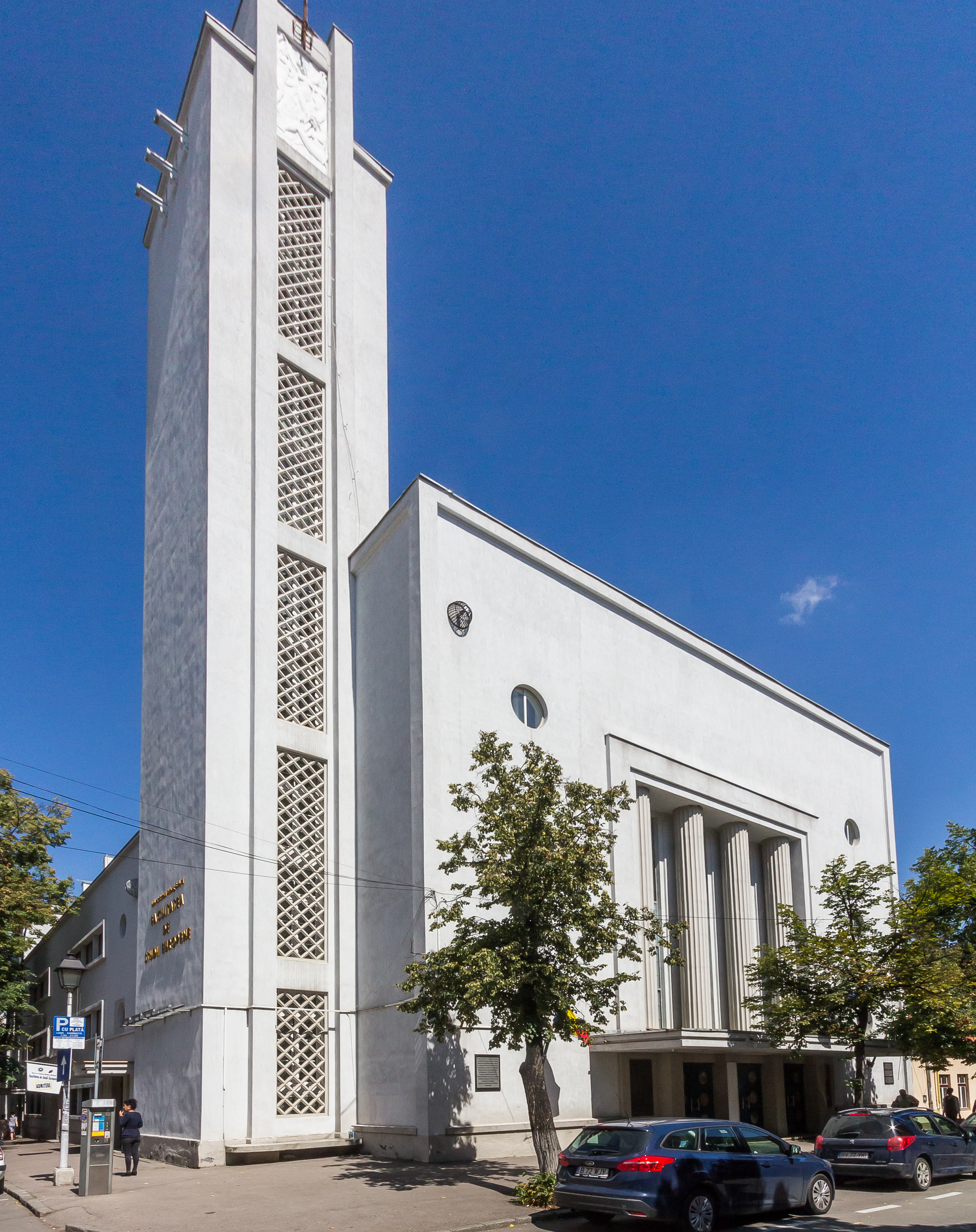 Casa Universitarilor, Cluj-Napoca